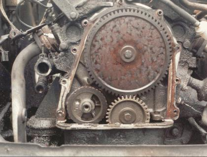 Front view of timing gears in a Ford Taunus V4 engine in a SAAB 96. The (fibre) balance shaft gear (lower left) has lost its teeth due to bearing failure. The other small (steel) gear is the crankshaft gear. The largest (fibre) gear is the camshaft gear. It has twice the diameter of the crankshaft gear so it rotates at half the speed.